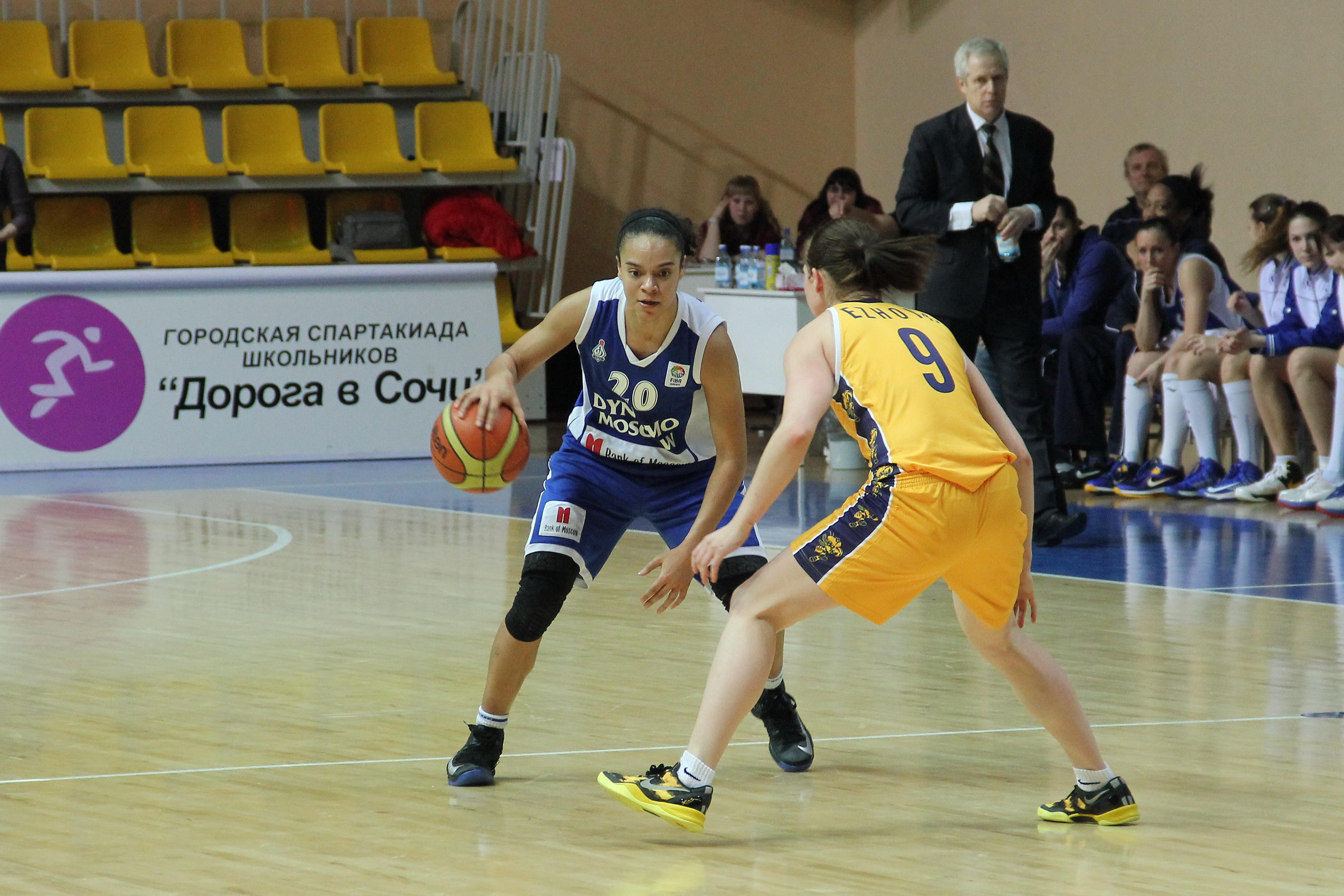 Russia, Vologda, Kristi Renee Toliver in game «Vologda-Chevakata» vs «Dinamo» (Moscow)